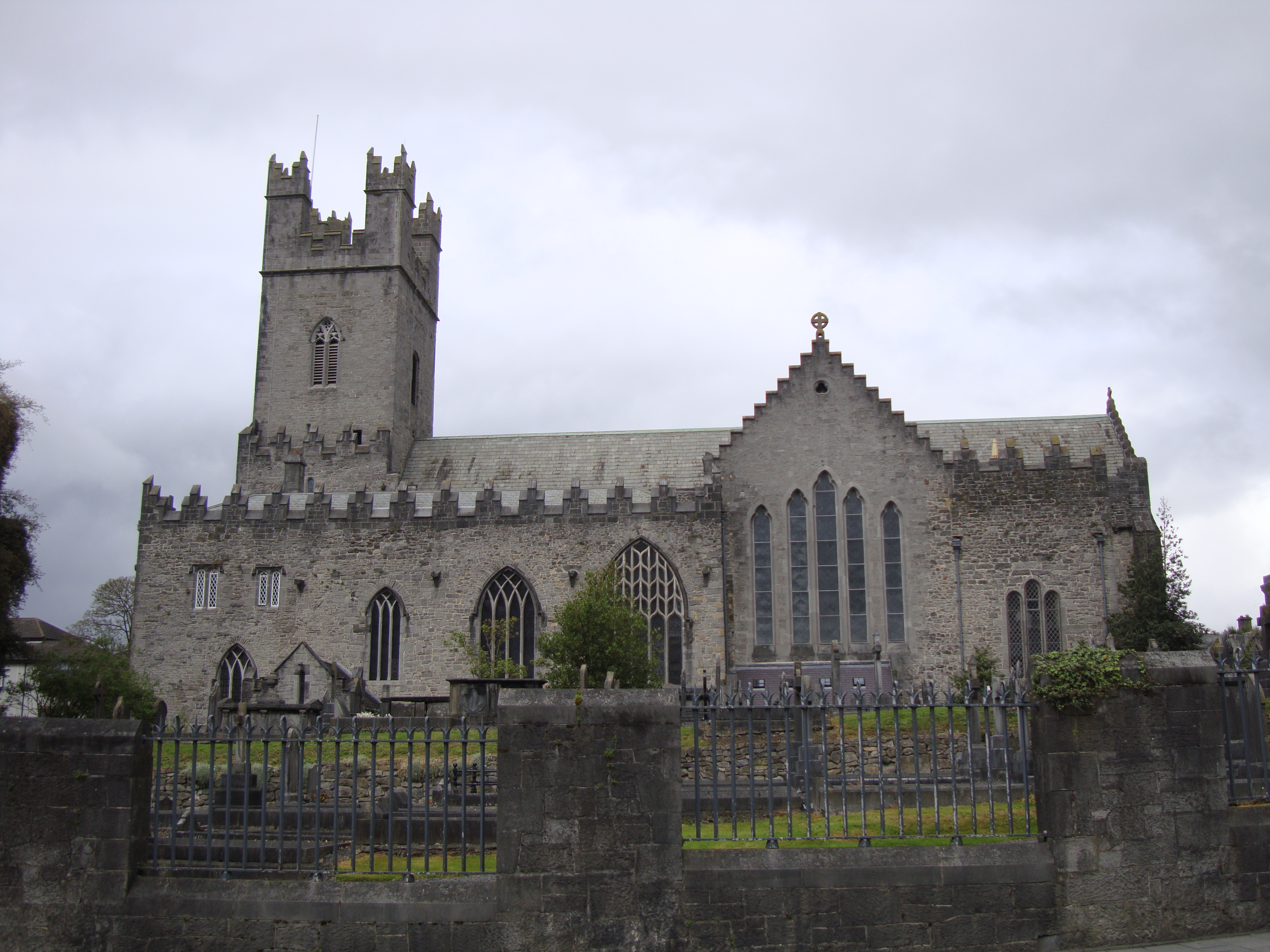 Photograph of St Mary's Cathedral, Limerick, Ireland